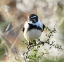 Male Damara Canary Serinus leucolaemus. This taxon is treated as a subspecies of Black-headed Canary (S. alario leucolaemus) by many authorities. At Namaqua National Park, Northern Cape, South Africa.